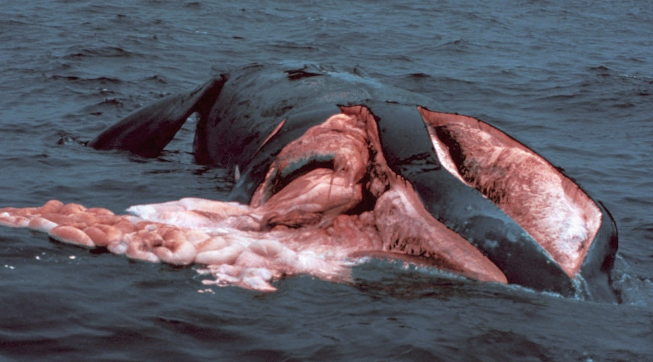 A dead North Atlantic Right Whale (Eubalaena glacialis). The animal has died after being hit by a boat propeller